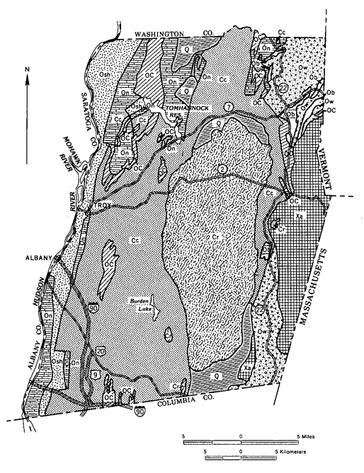 The bedrock geology of Rensselaer County in New York, US. The Rensselaer Plateau is visible in the center, labeled Cr. Legend here